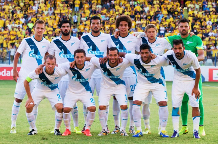 FC Zenit Saint Petersburg